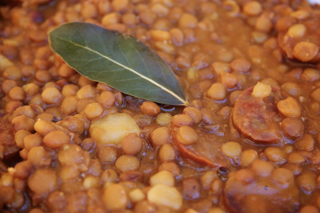 How to make a super quick Lentejas con Chorizo (Lentils with Chorizo). It tastes much better than out of a can and takes 5 minutes. 1. Slice up 2 cloves of garlic and fry in olive oil with 2 bay (laurel) leaves. 2. Slice up some cured chorizo and fry it for 2 minutes on both sides in the same oil. 3. Make up about half a cup of stock (chicken or meat). 4. Add precooked lentils to the fried chorizo and then add the stock. 5. Let it simmer for 3 minutes. 6. Take out a quarter of a cup of lentils and stock and blend. Then add it back to the saucepan. And there you go. OK - it's not the traditional way to do it, but it's quick. I take photos for fun and for my business blog (Say No! to the Office), food company website (The Tapas Lunch Company) and Spanish food portal (Spanish Food World). Copyright © 2011 Jonathan Pincas. All Rights Reserved. Please contact me if you're interested in using one of my pictures.